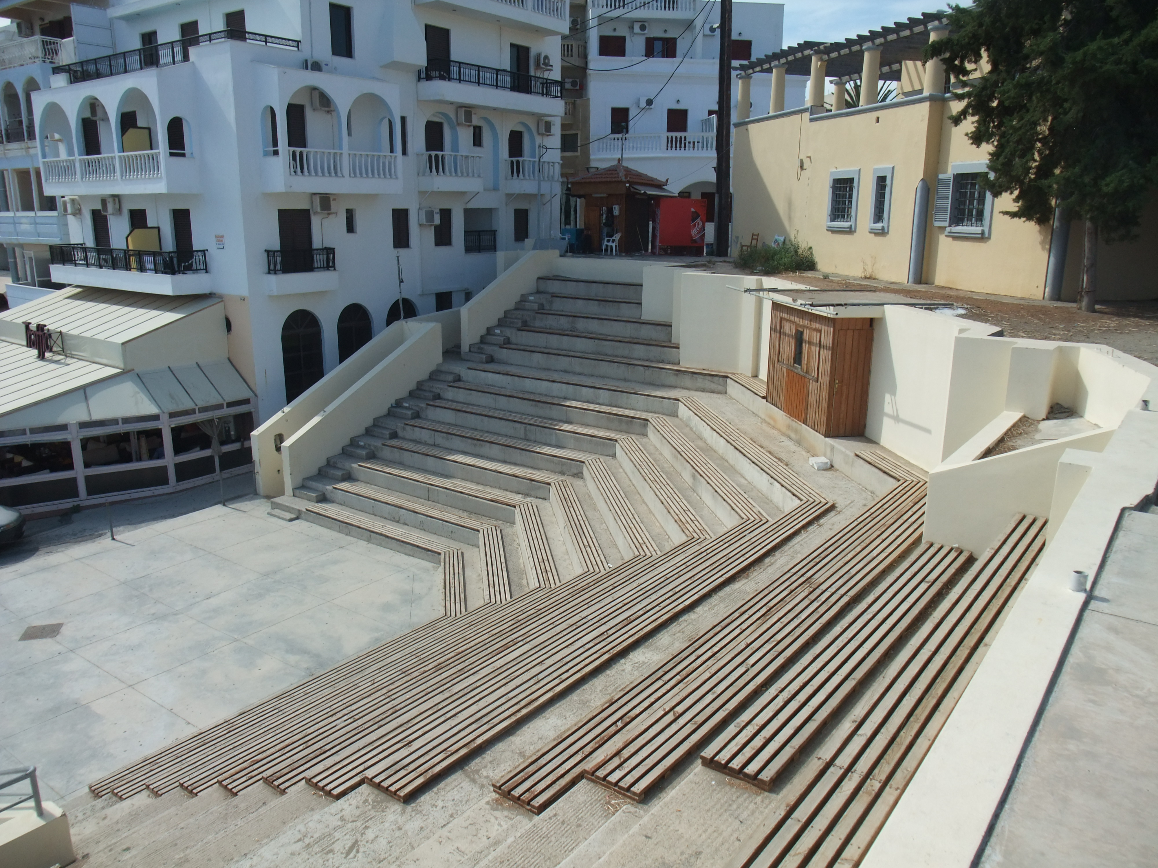 Open Air Theatre (tribune) in Pigadia (Karpathos)